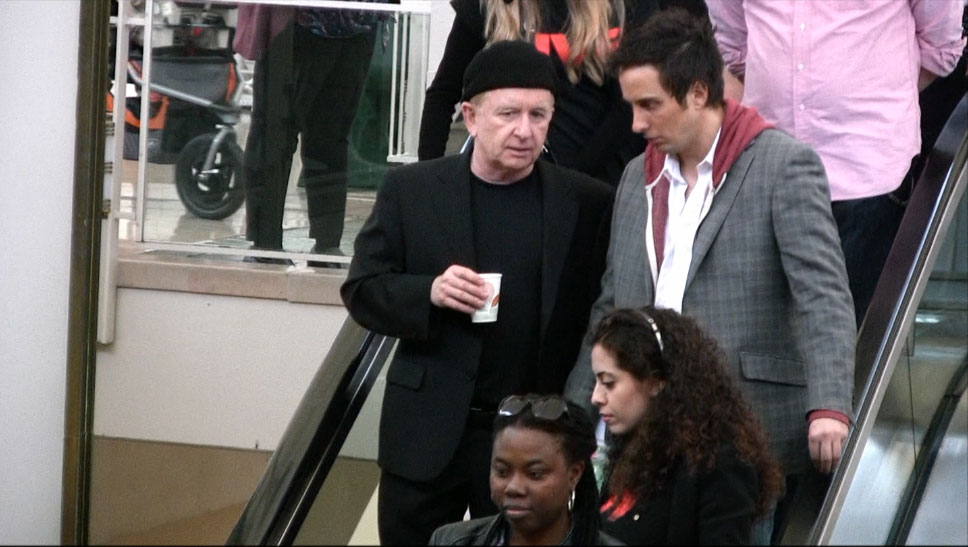 CBC Live event at Sherway Gardens.